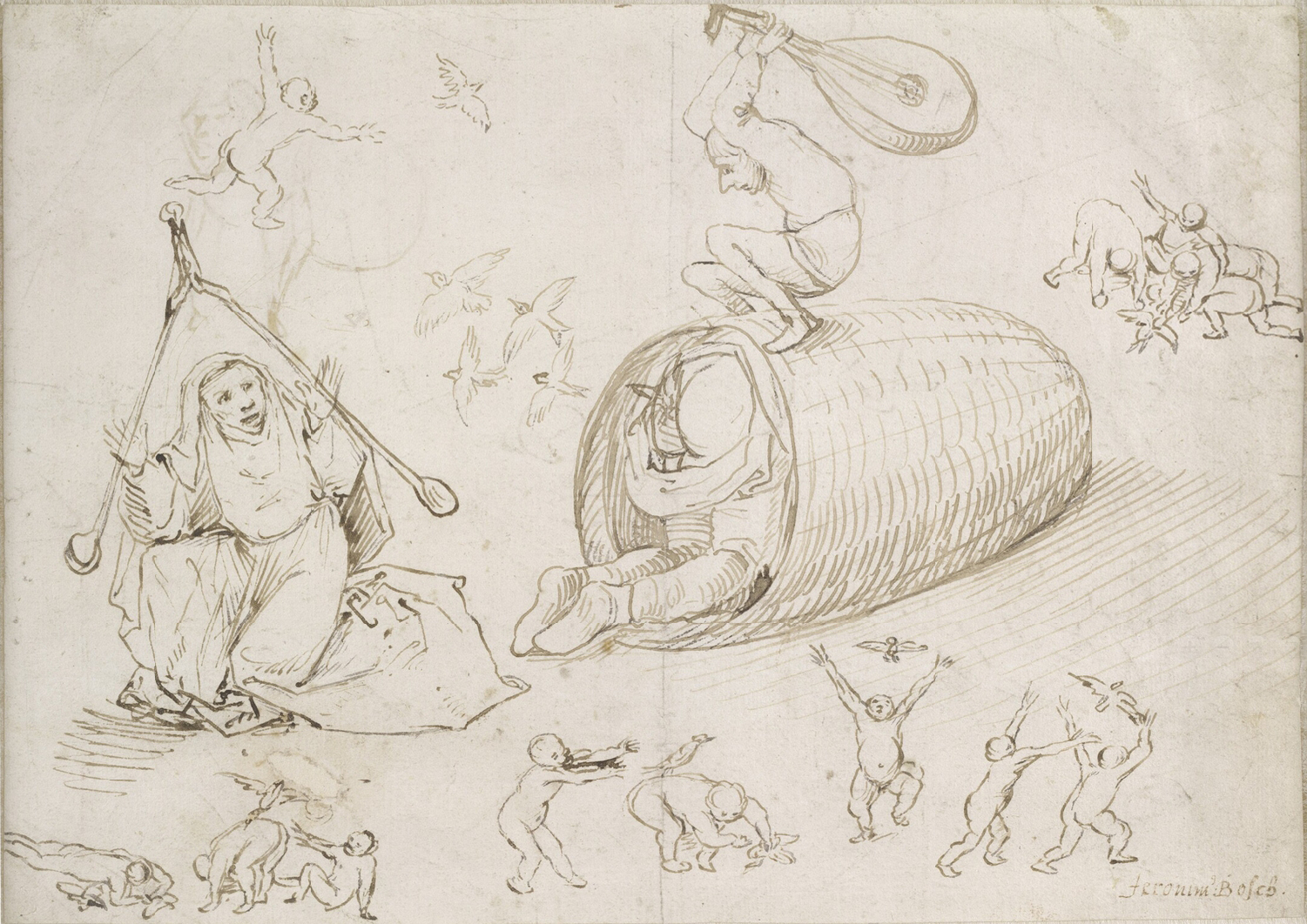 Front of a two-sided drawing. For the reverse, see File:Beehive and witches (reverse).jpg.